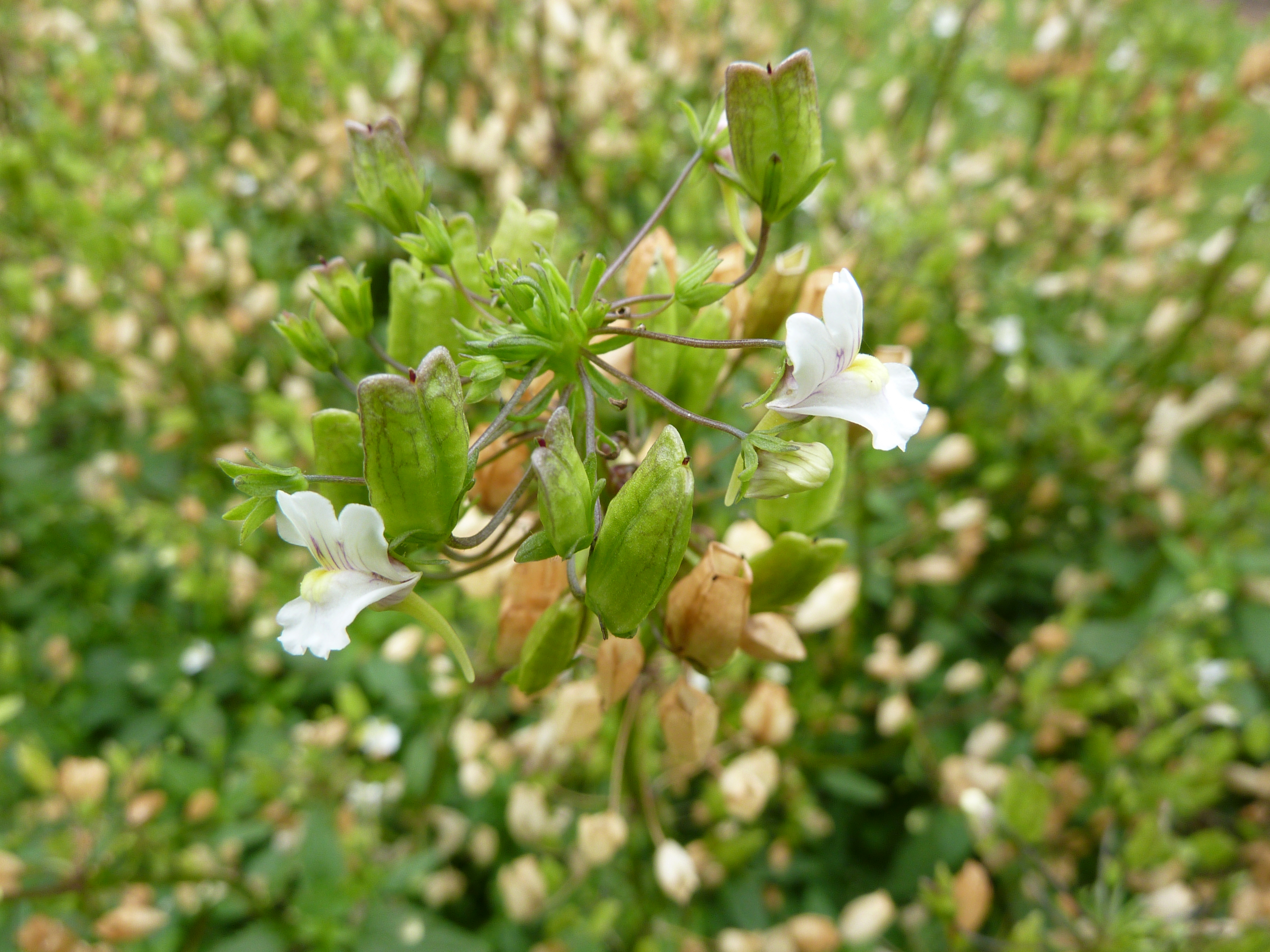 Nemesia melissifolia, Cambridge University Botanic Garden